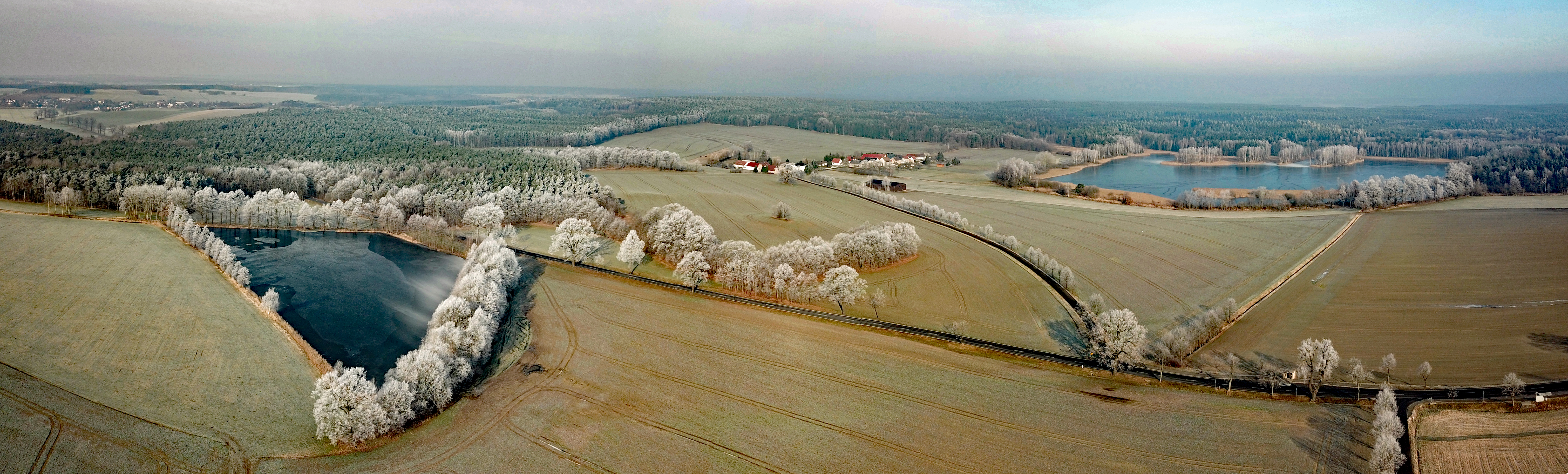 Rohrbach (Germany, Saxony, Schönteichen)